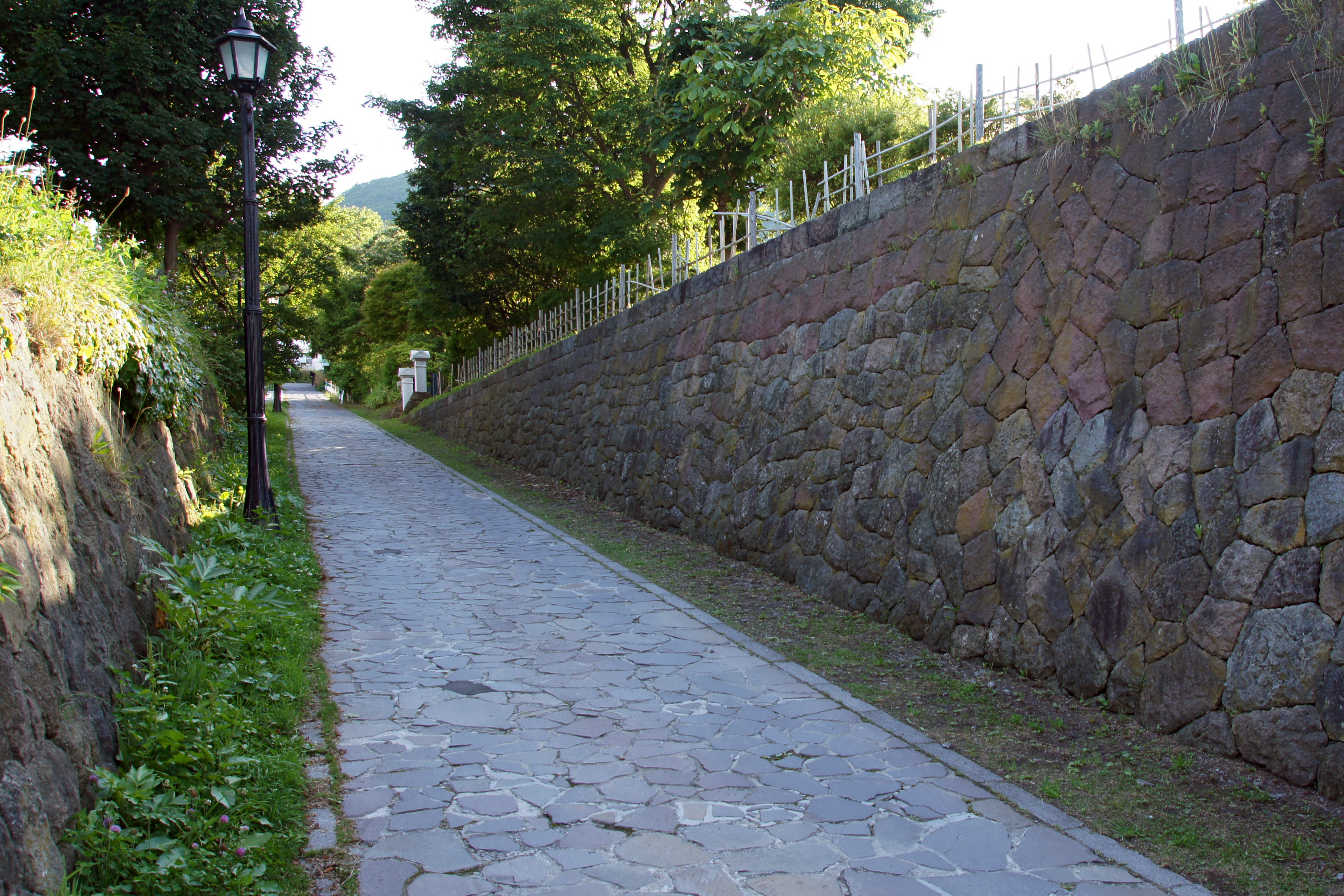 Chachanobori slope in Motomachi, Hakodate, Hokkaido prefecture, Japan